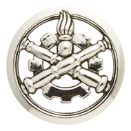 Regimental cap badge of equipment (France).